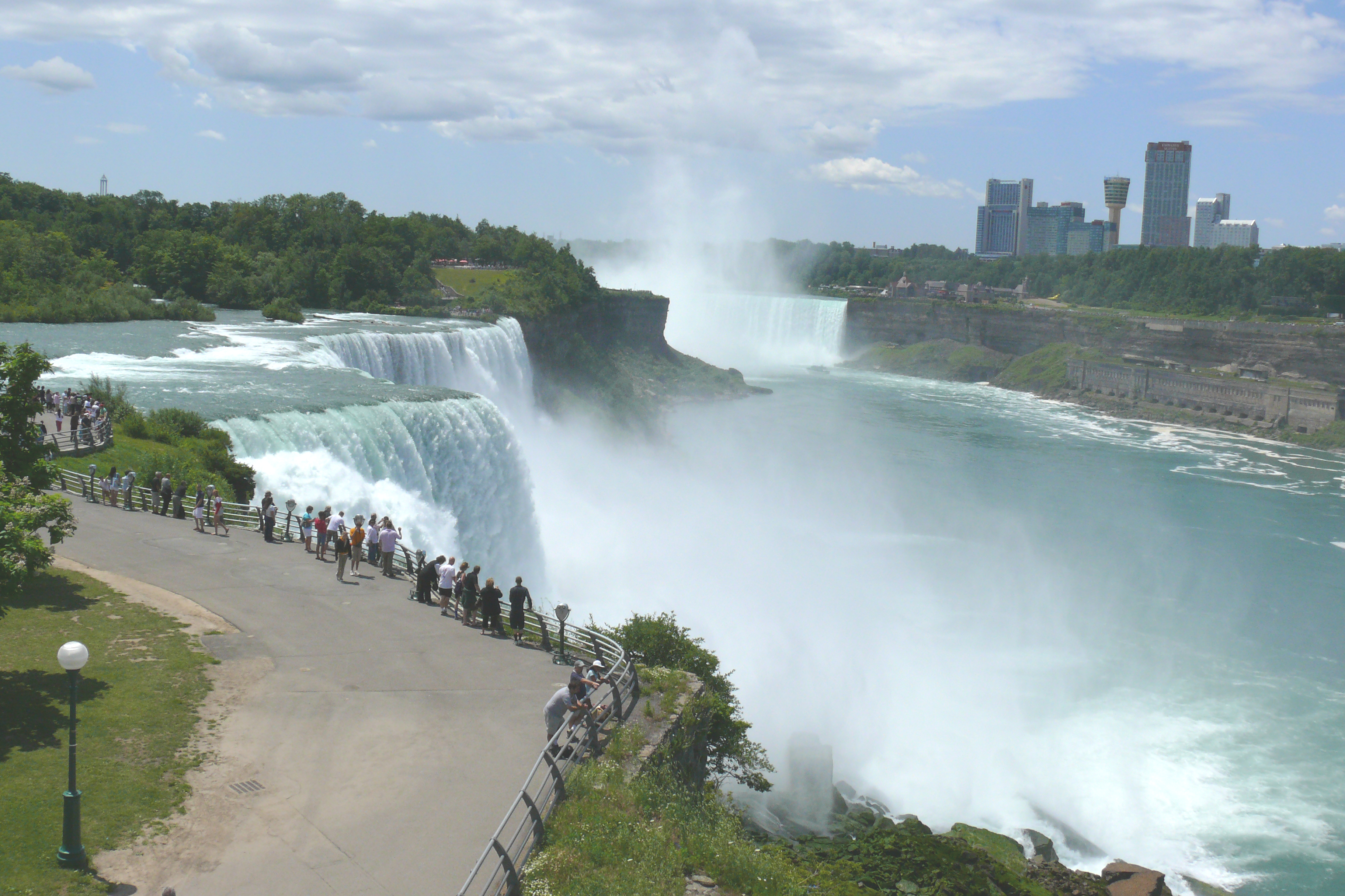 Niagara Falls, in front the American Falls, in the background the Horseshoe Falls.